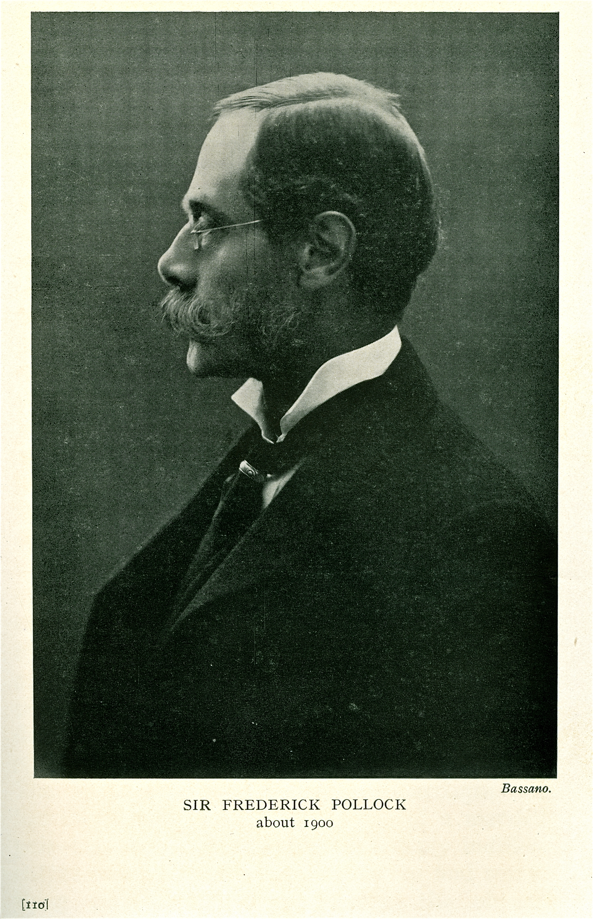 Photograph by Bassano (died 1913), taken from Sir Frederick's memoirs For my Grandson, published 1933 by John Murray